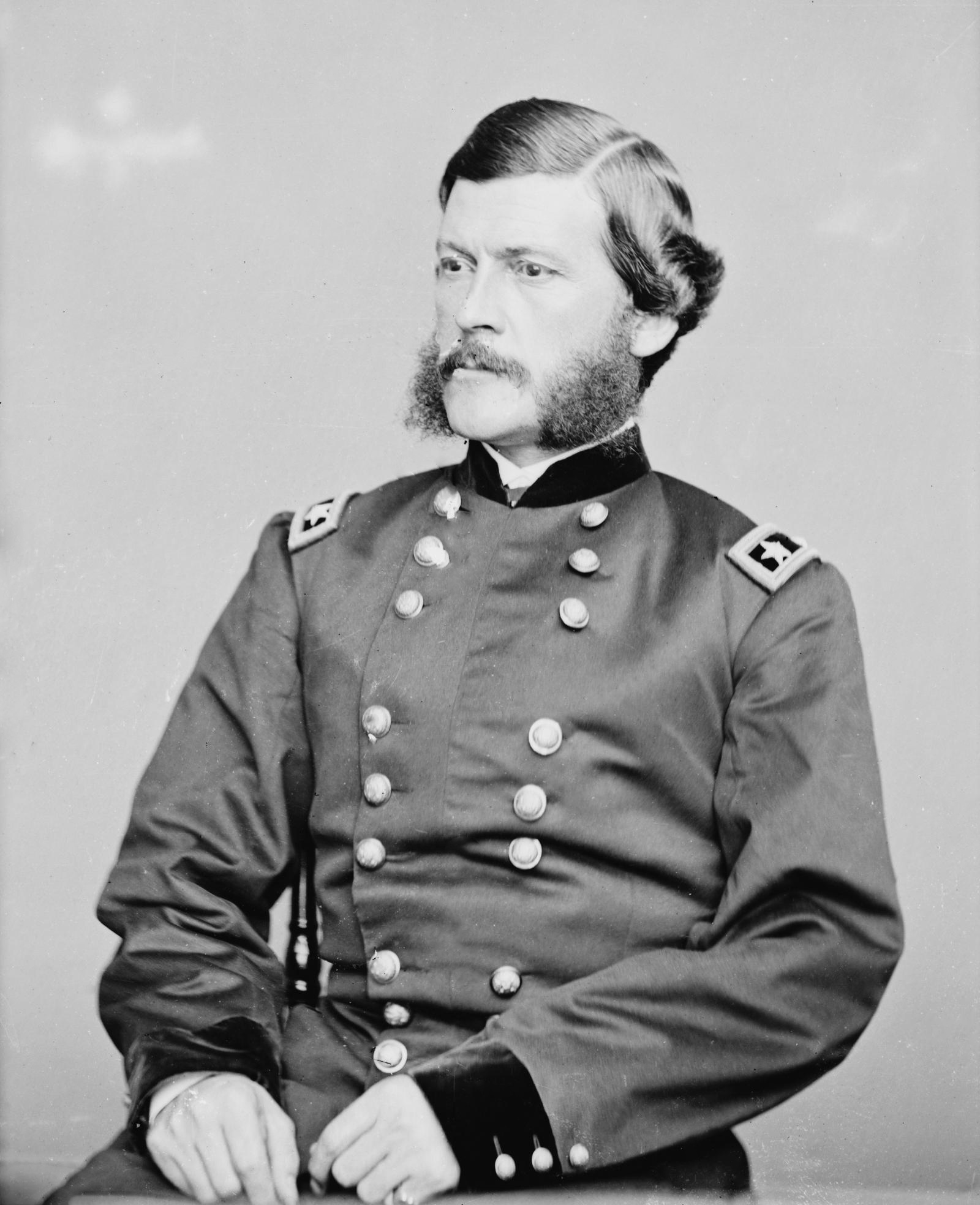 John Parke. Library of Congress description: "Gen. J.G. Parke, U.S.A."